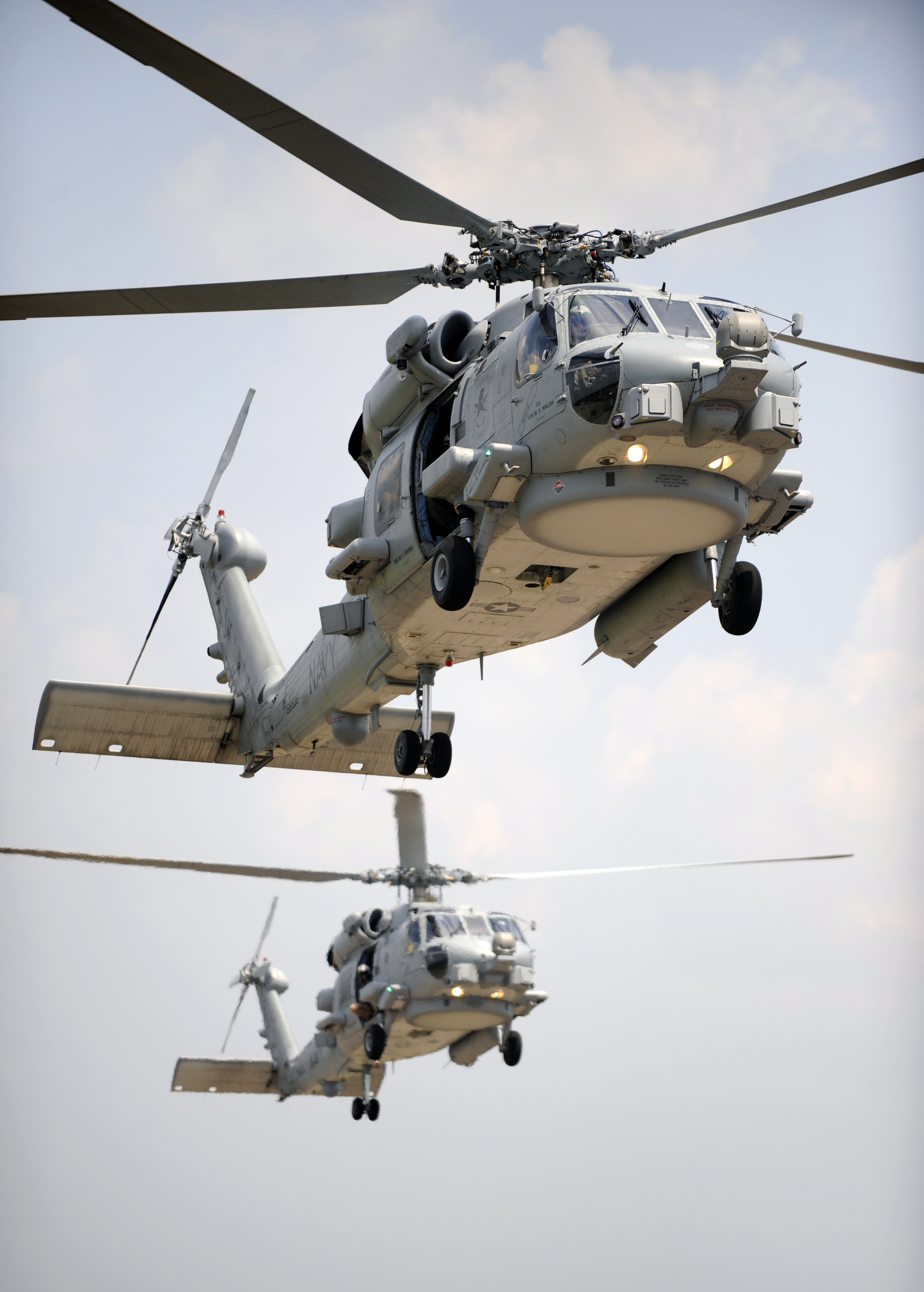 JACKSONVILLE, Fla. (June 10, 2009) Two multi-mission MH-60R Sea Hawk helicopters fly in tandem during section landings at Naval Air Station Jacksonville, Fla. The new Sea Hawk variant has many improvements, such as the glass cockpit, improved mission systems, new sensors and advanced avionics. (U.S. Navy photo by Mass Communication Specialist 2nd Class Shannon Renfroe/Released)